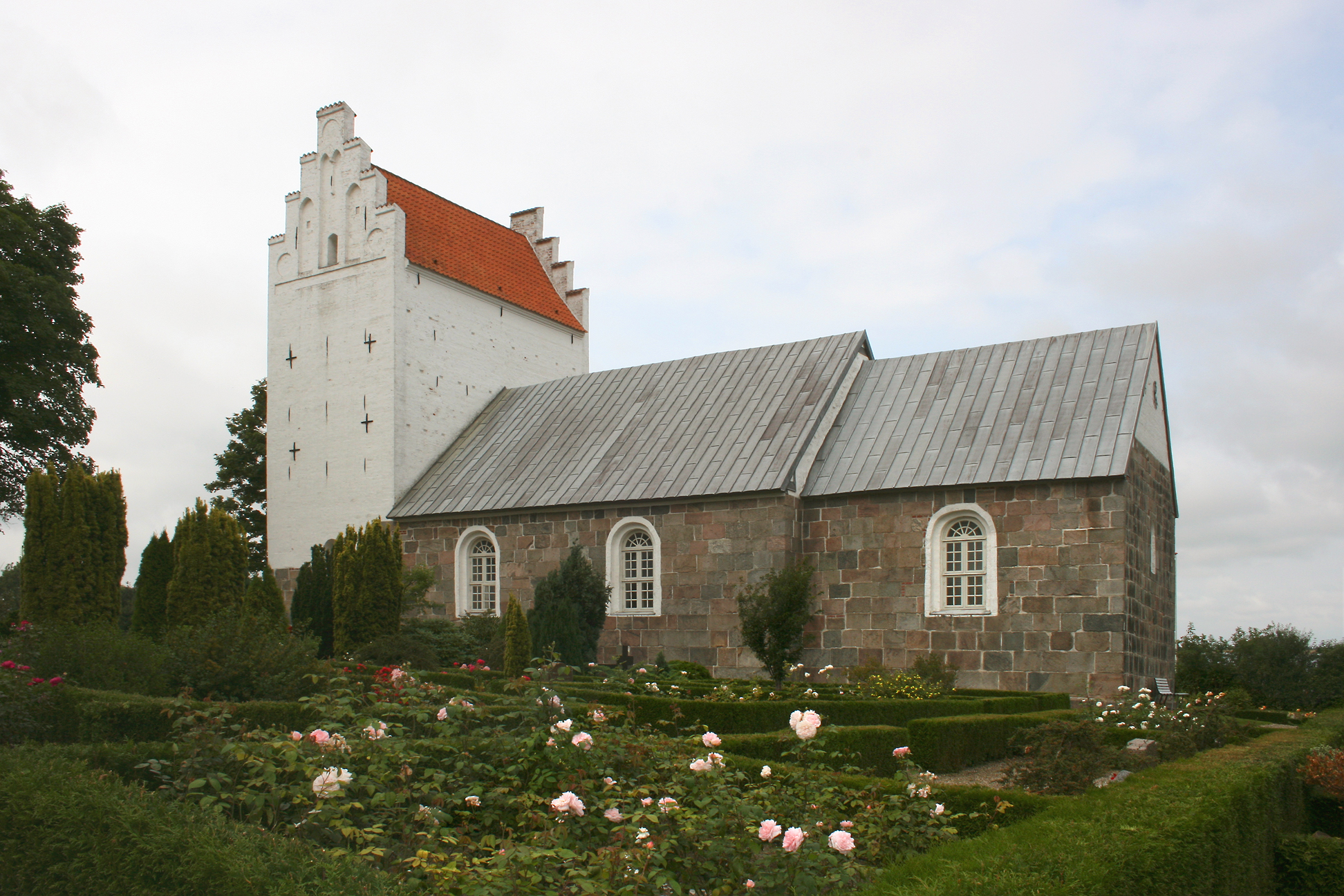 Dalbyneder Church, exterior facing souht east. Dalbyneder Sogn, Gjerlev Herred, Randers Amt, Denmark.